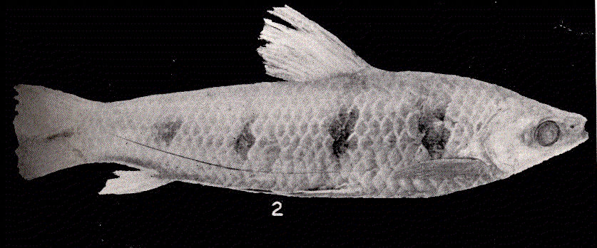 Schizodon borelli Boulenter Subject: Anostomidae Tag: Fish